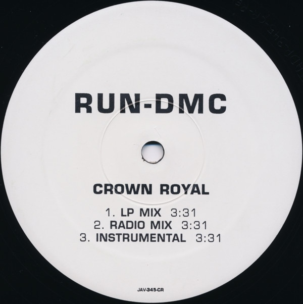 Side A of the Run–D.M.C. 12-inch single "Crown Royal / Queens Day". This record was released in 1999 without a record label for the upcoming album Crown Royal.